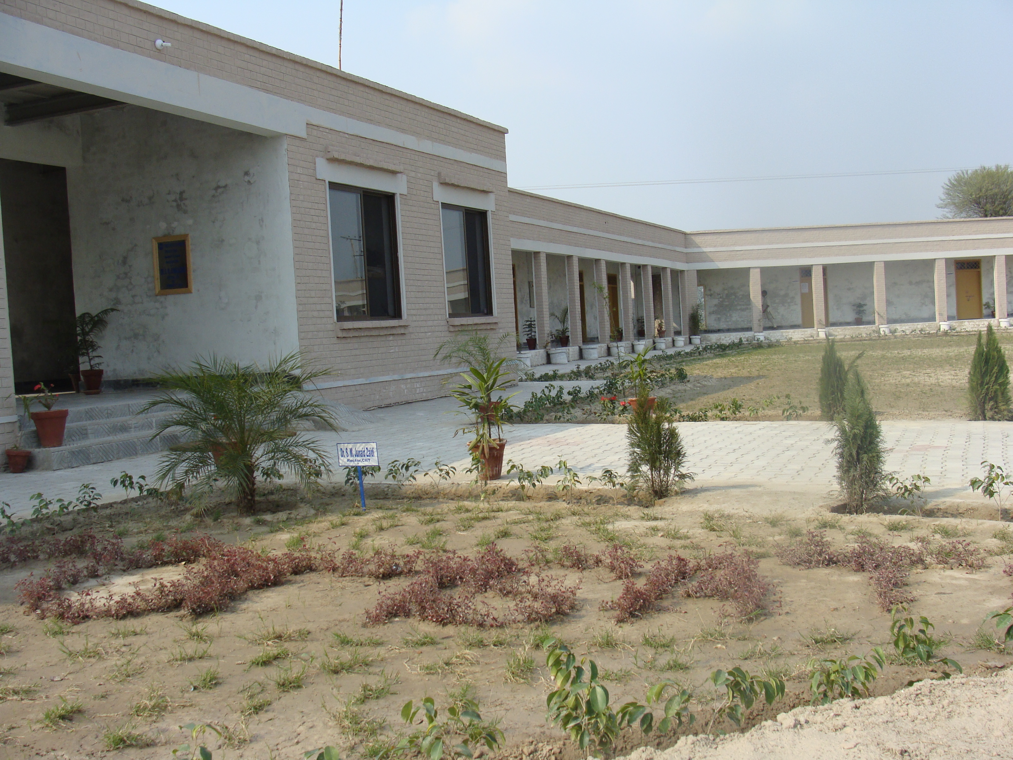 CUST Vehari its own campus